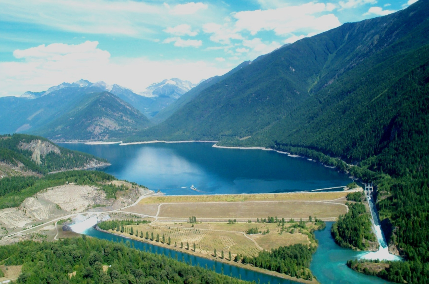 Doug Robinson